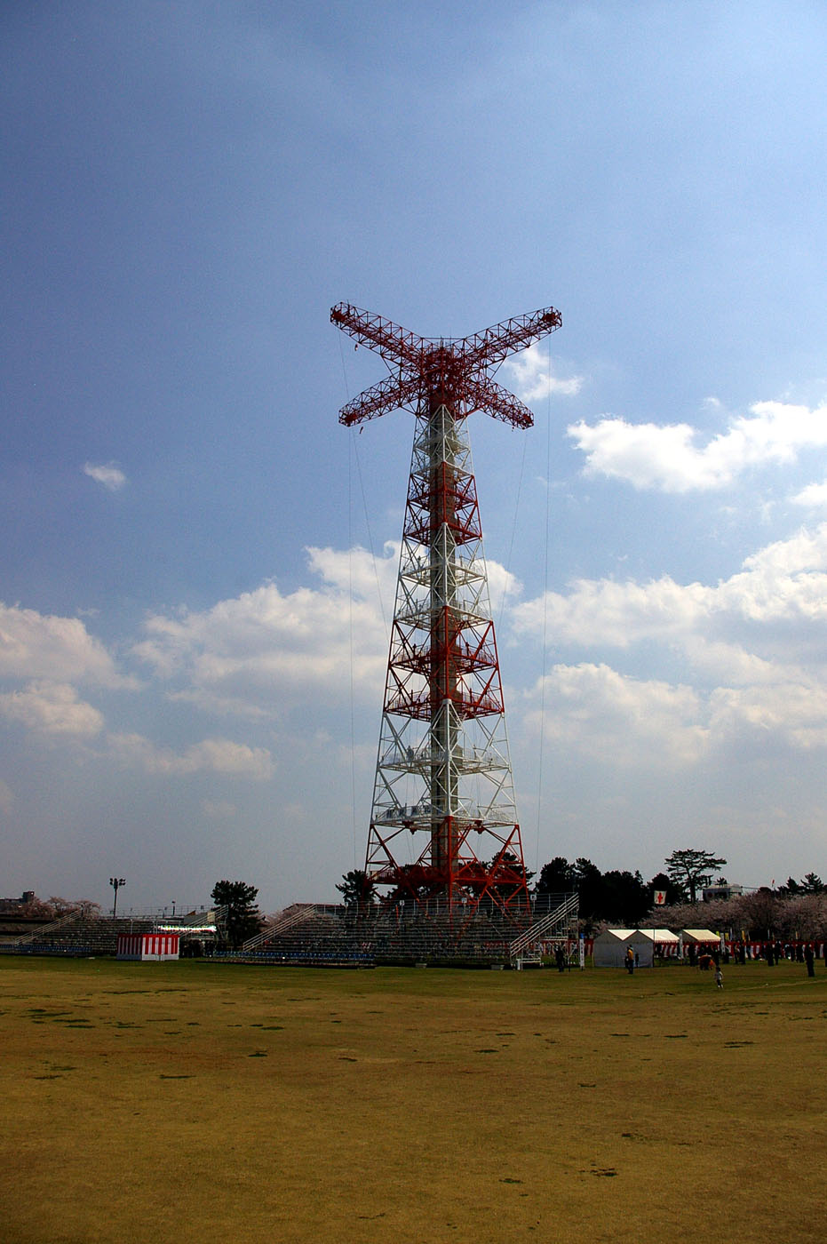 Taken by los688,6-Apr-2008,JGSDF Camp Nrashino.PD-self. ja:2008年4月6日、投稿者撮影。陸上自衛隊習志野駐屯地。降下訓練塔。